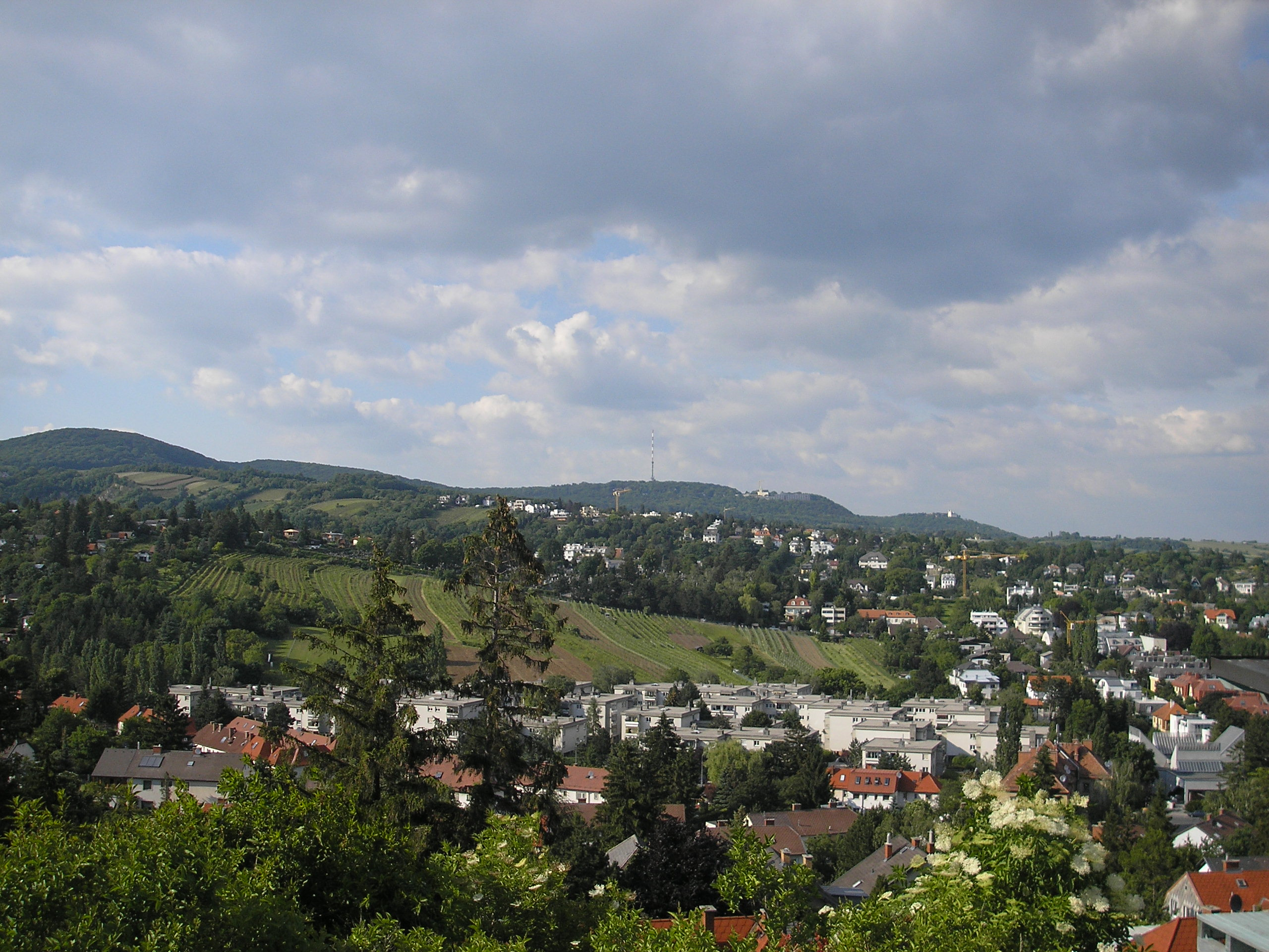 View of Döbling and the wine-hills from Währing.